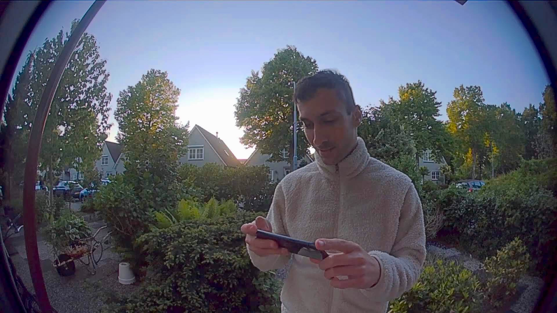 Ring Video Doorbell 2 capture video quality